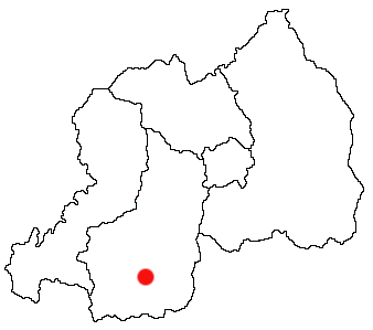 Location of Maraba (Coffee) in Rwanda. SteveRwanda